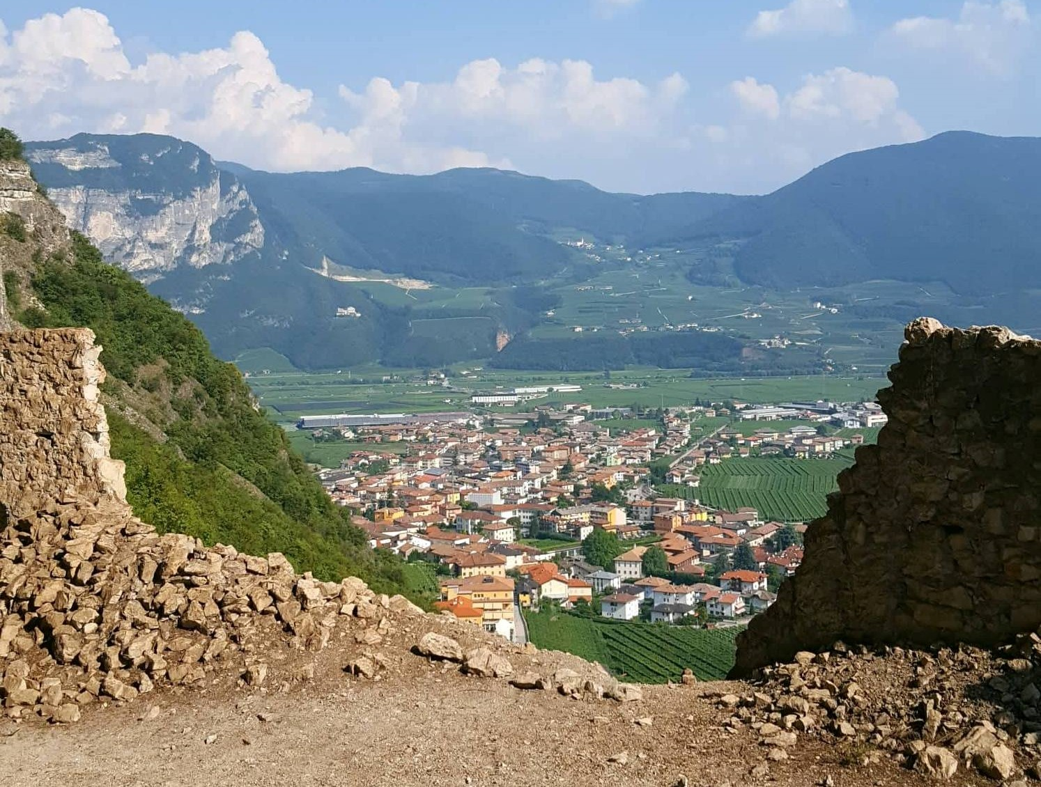 Mezzocorona seen from San Gottardo Castle